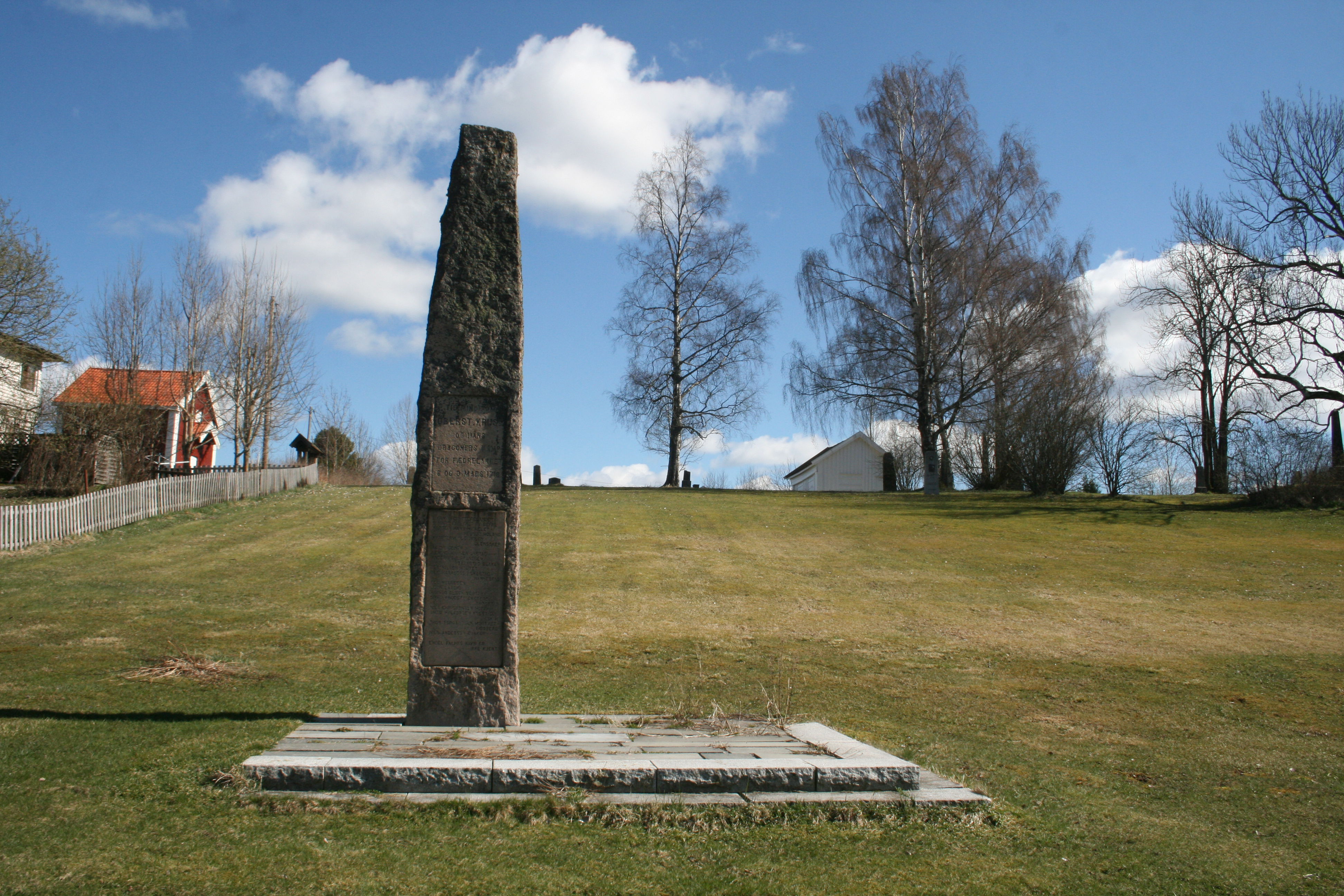 The old cemetery at Løken in Høland, Norway. Graves from the Iron Age. Later location of a church that was demolished around 1883. The cemetery was in use until 1912; restored around 1960. In the front a memorial for colonel Kruse, his men and their fight for their mother country in March 1716.